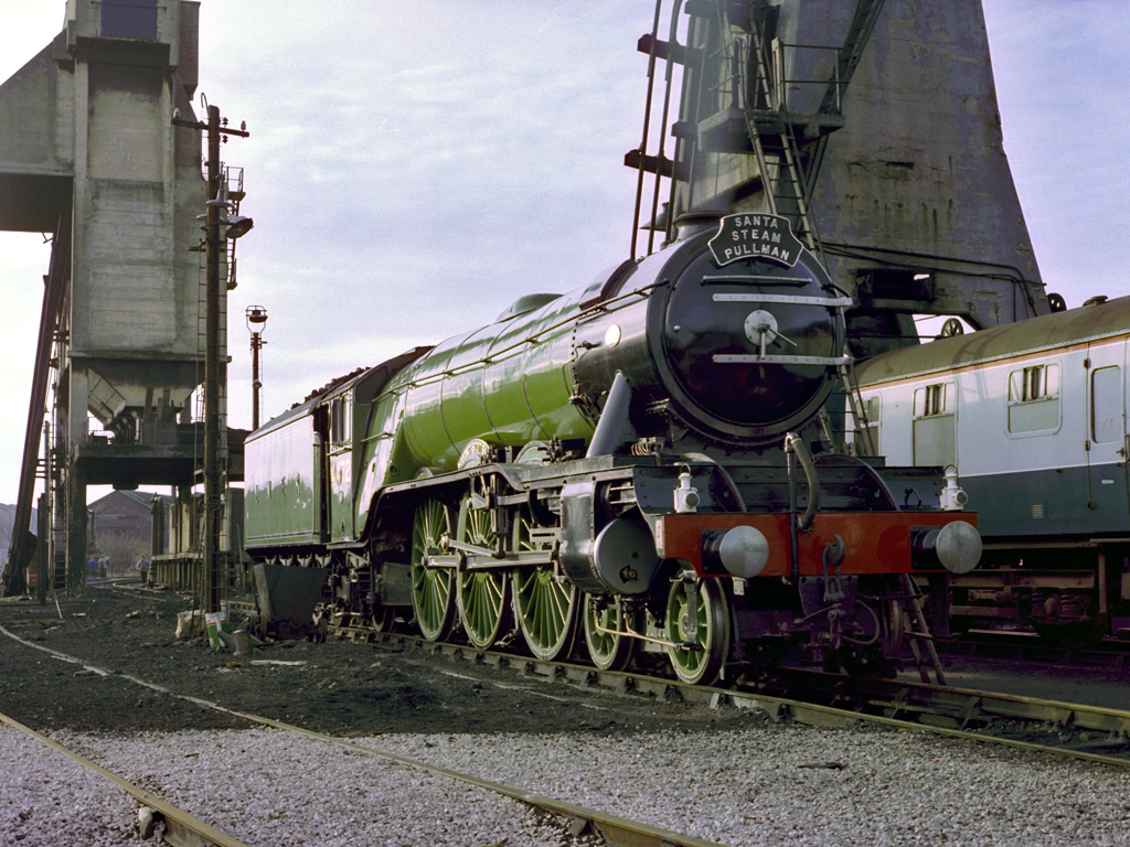 London and North Eastern Railway rebuilt Gresley 4-6-2 'A3' class locomotive number 4472 FLYING SCOTSMAN at Steamtown Railway Museum at Carnforth prior to working the 08:30 (Additional) London Euston to Sellafield 'Santa Steam Pullman' charter (1???) forward from Carnforth. Tuesday 28th December 1982